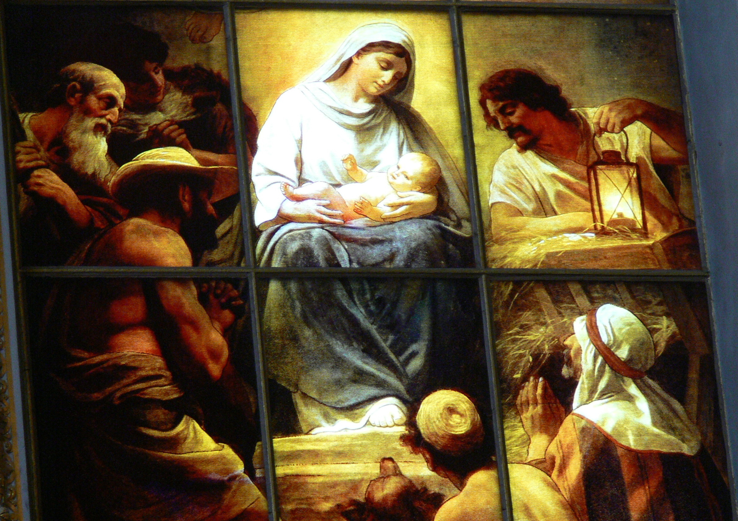 Berlin Cathedral ( Germany ). Altar area - Stained glass windows ( 1905 ) of nativity by Anton von Werner.